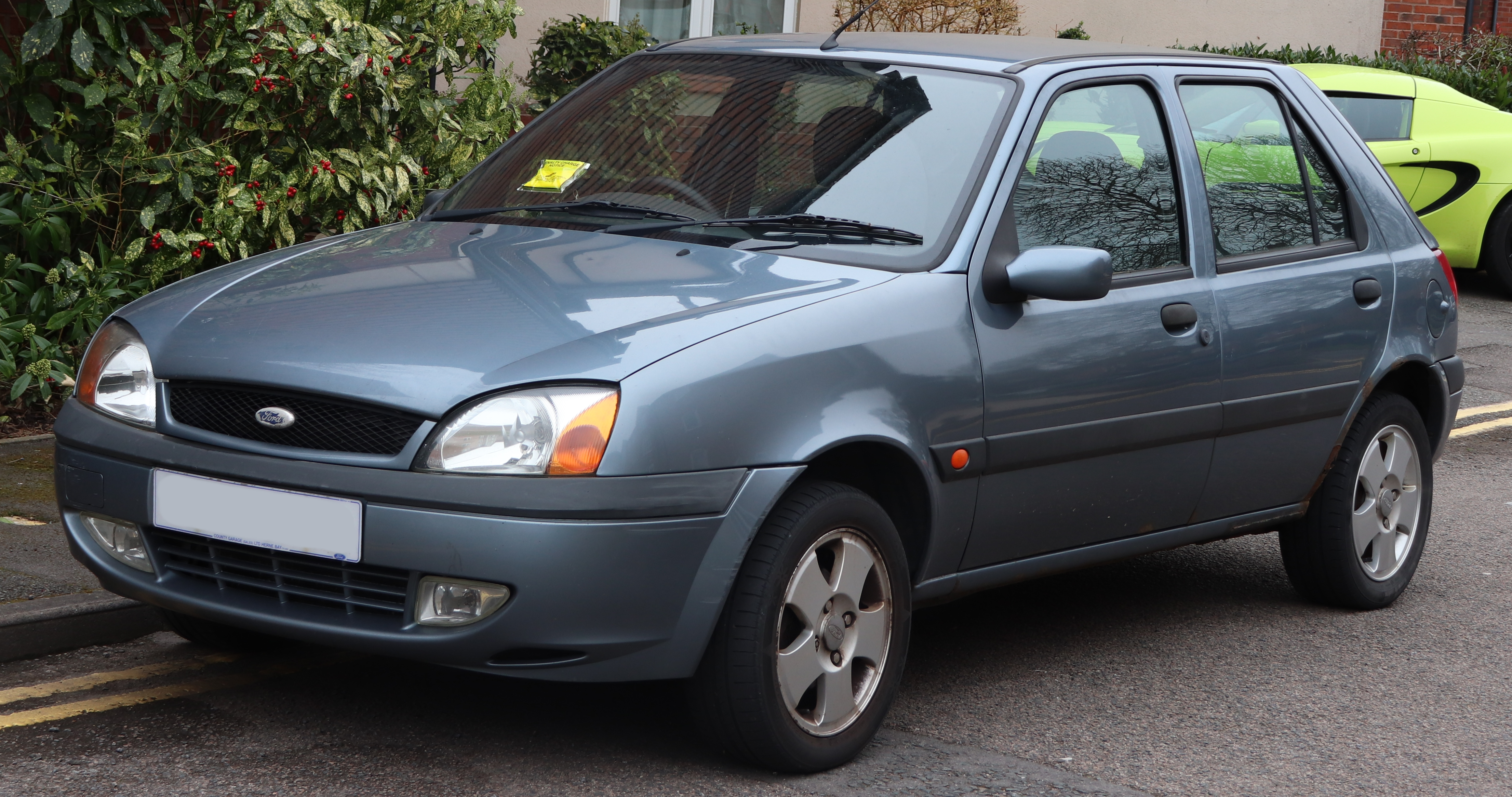 2001 Ford Fiesta Freestyle 1.2 Front Taken in Warwick